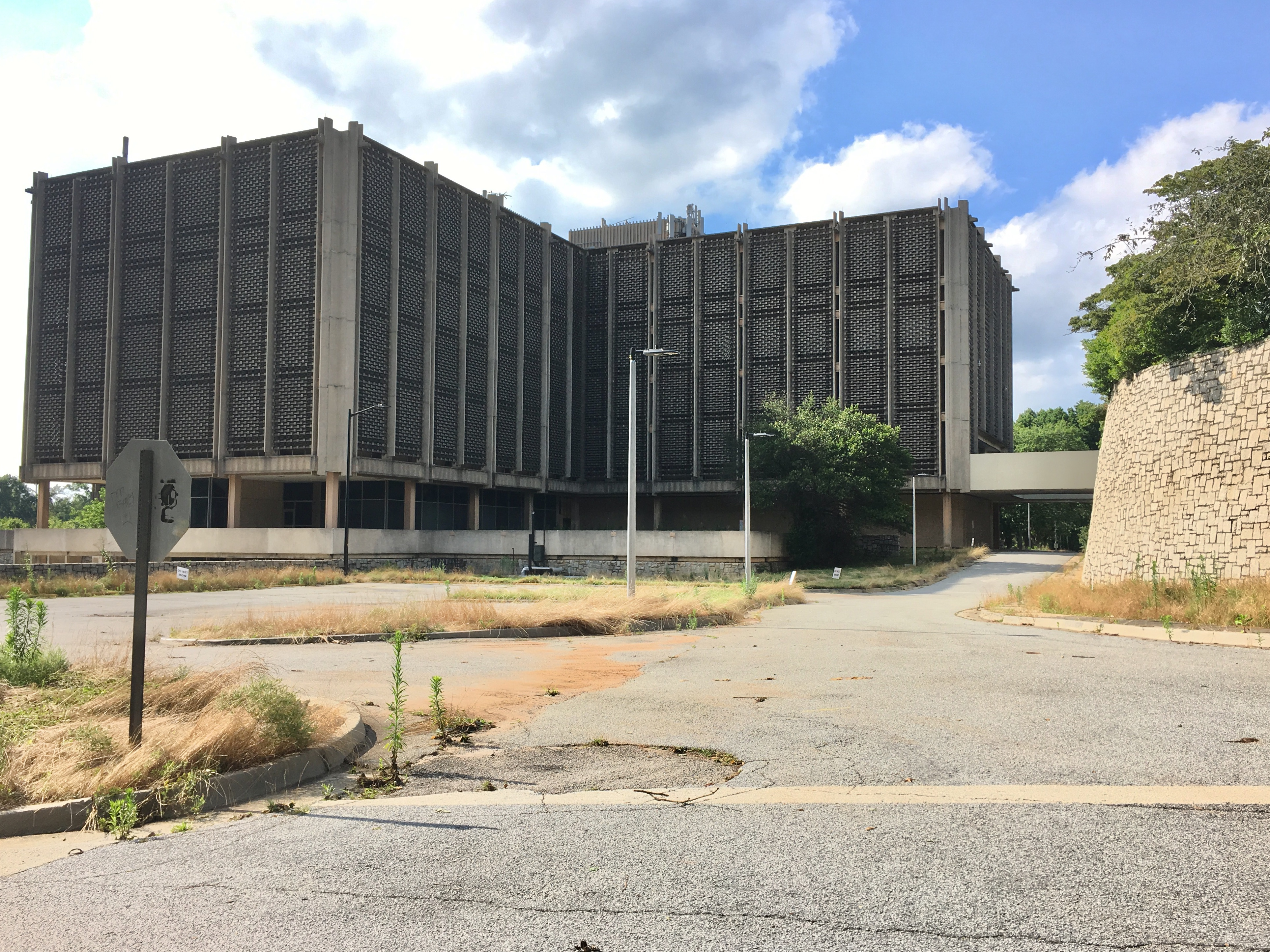 Emory University’s Briarcliff campus, and in popular culture, the building that served as the fictional Hawkins Research Laboratory in the series Stranger Things.